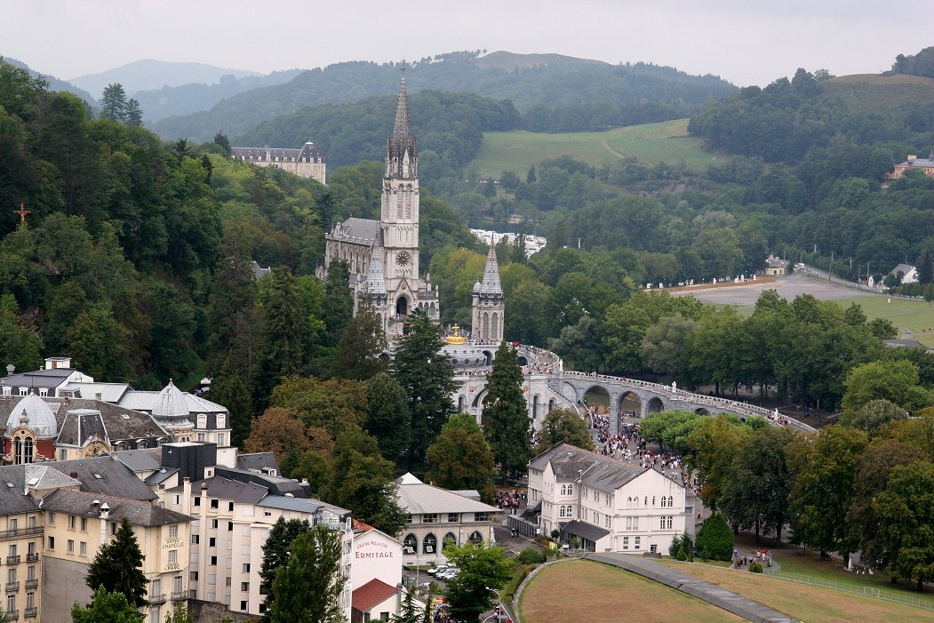 Lourdes Basilica